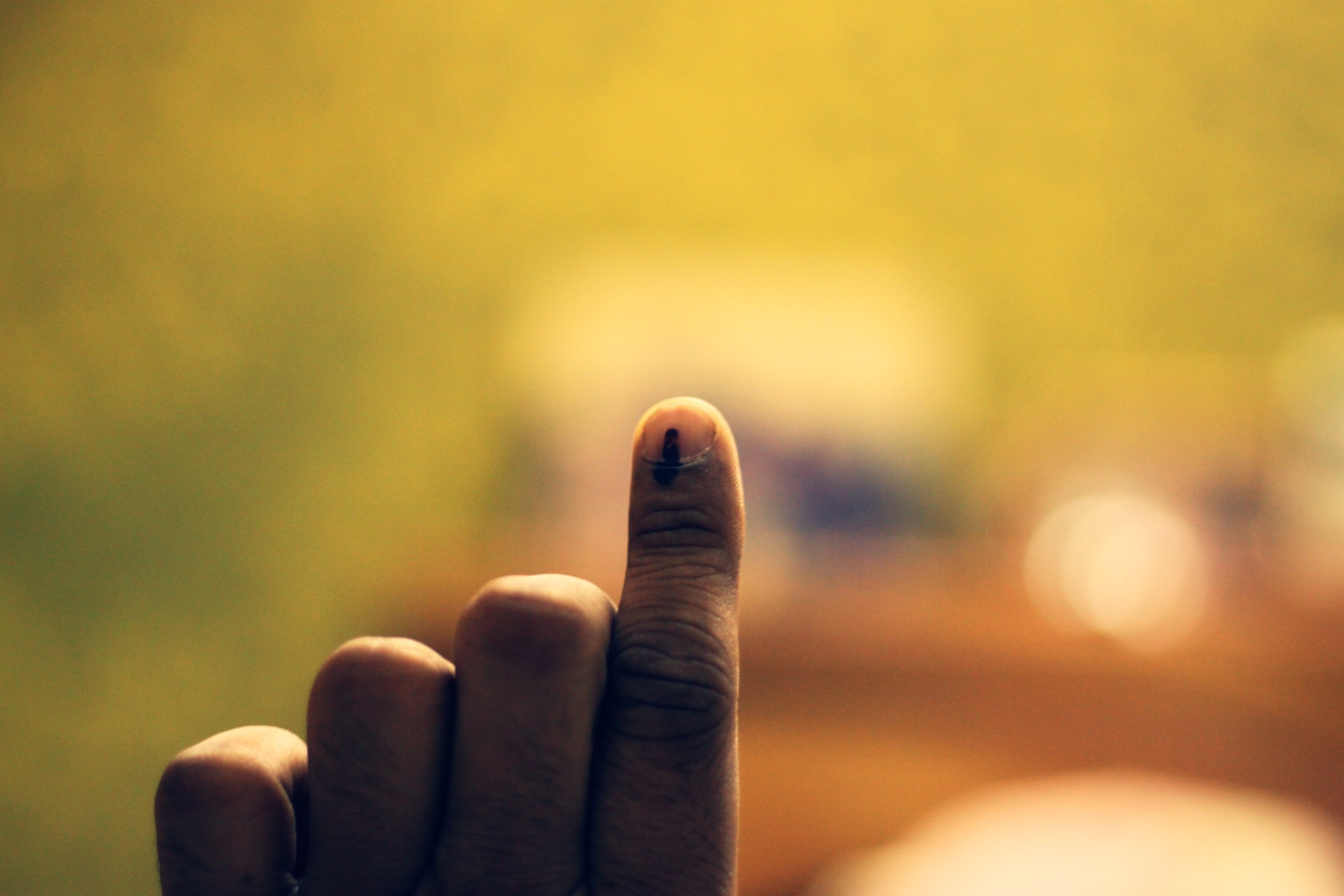 Every vote counts - Being the responsible citizen that I am, on my short trip to India, I got a chance to vote for BMC Election. Yay !!!